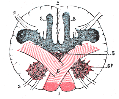 Section of the medulla oblongata at the level of the decussation of the pyramids. (Testut.) 1. Anterior median fissure. 2. Posterior median sulcus. 3. Motor roots. 4. Sensory roots. 5. Base of the anterior column, from which the head (5’) has been detached by the lateral cerebrospinal fasciculus. 6. Decussation of the lateral cerebrospinal fasciculus. 7. Posterior columns (in blue). 8. Gracile nucleus.